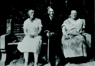 Emmy Noether, Oswald Veblen, 1932